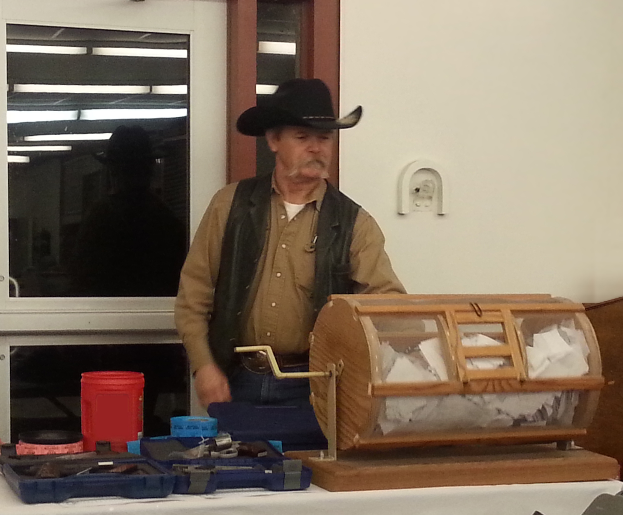 Raffle roll cage holding tickets for two guns being raffled off at the Fortuna, California Pistol Club annual dinner at the Ferndale, California Fairgrounds' Turf Room.